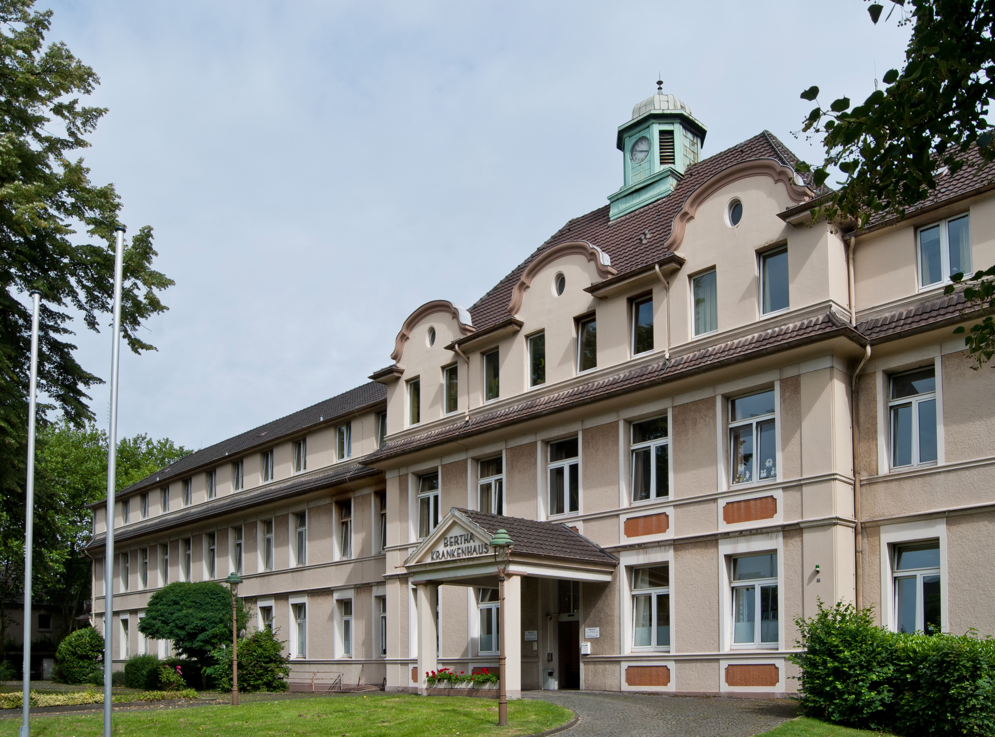 Duisburg (North Rhine-Westphalia, Germany) – borough Rheinhausen, district Friemersheim – hospital Bertha-Krankenhaus This image shows a heritage building in Germany, located in the North Rhine-Westphalian city Duisburg (no. 547). This photograph was taken with a Nikon D3000